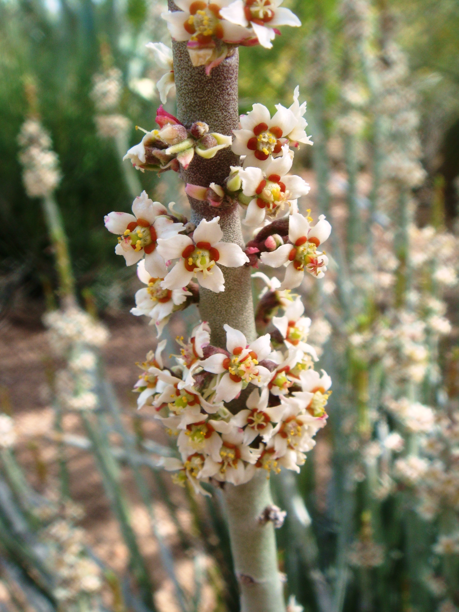 Euphorbia antisyphilitica, cultivated, Desert Botanical Garden, Phoenix, Arizona